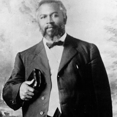 Picture from the early 1910s showing William Joseph Seymour (May 2, 1870 - September 28, 1922) was an African American minister, and an initiator of the Pentecostal religious movement.